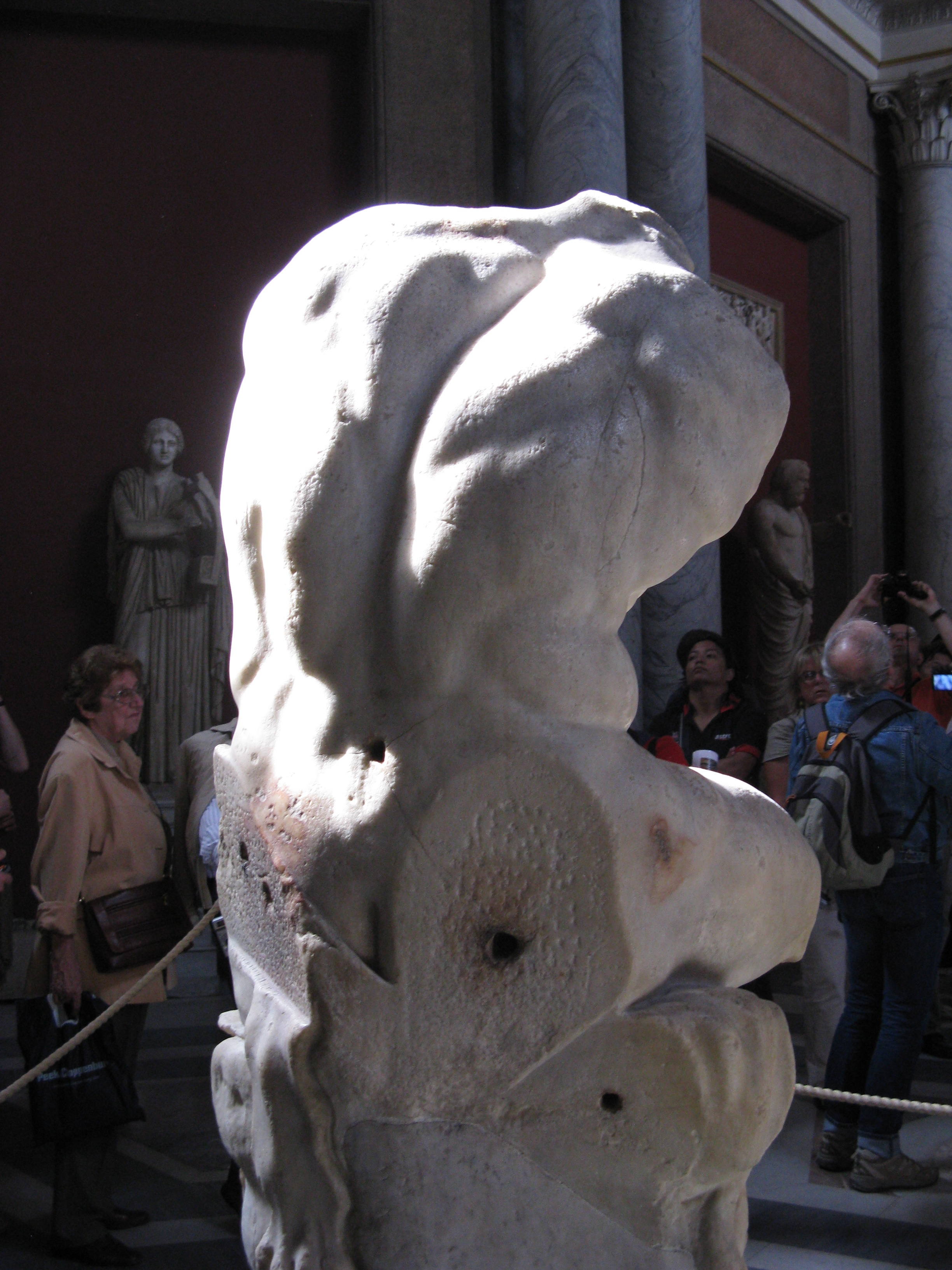 The "Torso del Belvedere" is a fragment (the torso) of a neo-attic artwork, dating from the 1st century CE. The inscription on the pedestal reads "made by Apollonios, son of Nestor, Athenian". It is on display in the Museo Pio-Clementino (Inv. 1192), Vatican Museums, Vatican City.